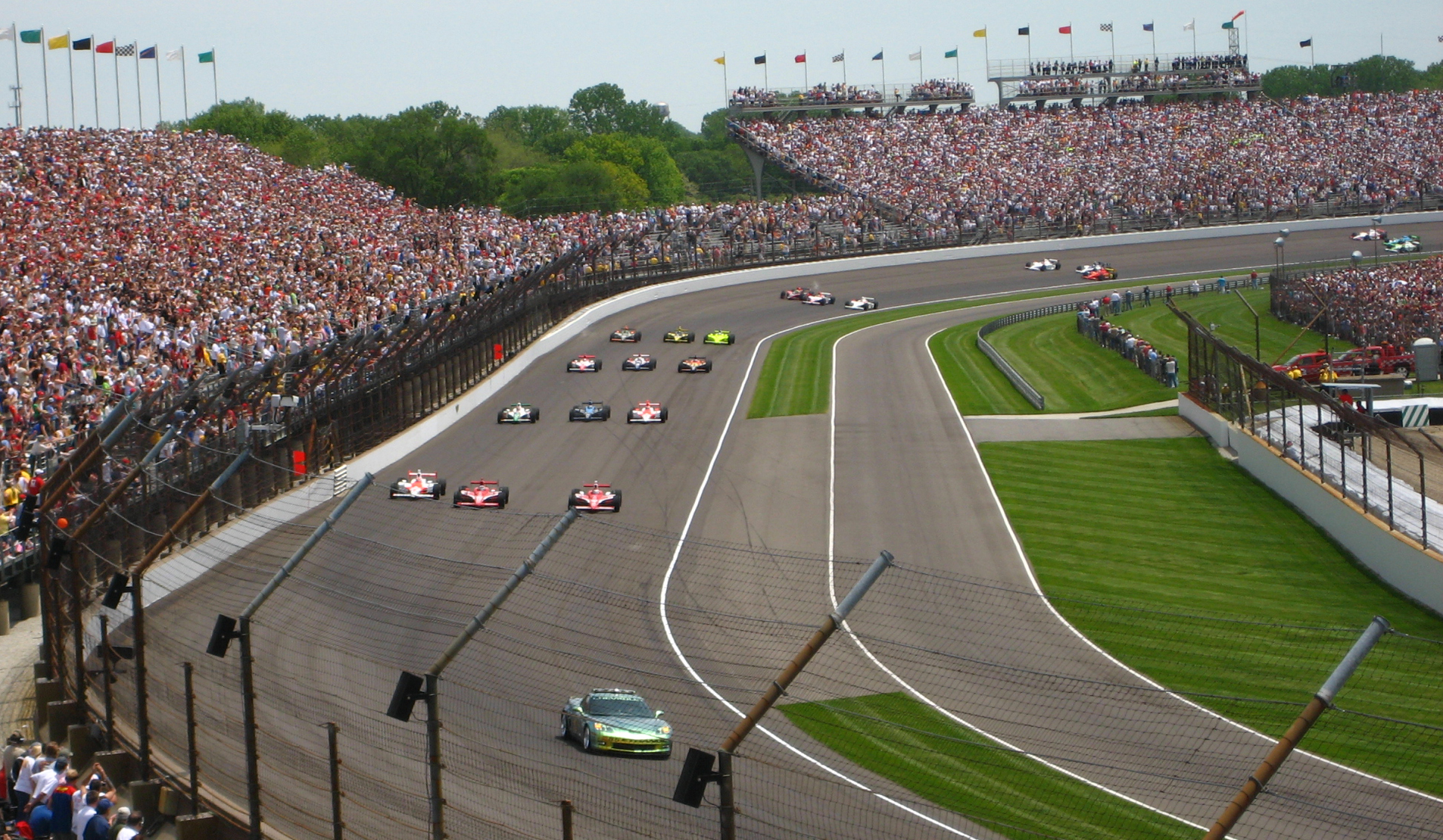 The field of the 2008 Indianapolis 500 lined up for the start.